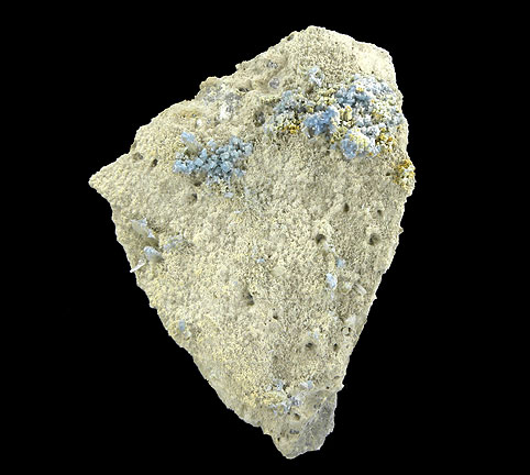 Vauxite, Paravauxite, Metavauxite Locality: Siglo Veinte Mine (Siglo XX Mine; Llallagua Mine; Catavi), Llallagua, Rafael Bustillo Province, Potosí Department, Bolivia (Locality at ) Size: 10.1 x 7.1 x 3.8 cm. From the find of 2006, this is undoubtedly one of the most significant and momentous discoveries ever made at this locality. Not since the days of World War II has there been such a remarkable find of this material. These are some of the largest overall Vauxite specimens in the world, but the greatest aspect of these pieces is two-fold. First, the Vauxite itself is associated with micro fibrous "strands" of the super rare phosphate Metavauxite, plus tabular micro crystals of Paravauxite and small whitish spheres of Wavellite. It is incredibly rare to have four individual phosphate species all on one specimen, and the fact that this mine is the type locality for Vauxite, Paravauxite and Metavauxite makes it all the better. There are also some small Quartz crystals on most of the specimens found as well, which is really a nice touch to these already amazing pieces. The second significant attribute of these specimens is the fact that they formed on a solid Quartz-Diorite porphyry matrix and not crumbly clay (after Allophane). This particular piece is a remarkable, very well crystallized, ridiculously rare, specimen consisting of small, bladed, beautiful blue color, radiating aggregates of Vauxite associated with micro fibrous strands of colorless Metavauxite, along with micro tabular blades of Paravauxite and small whitish spheres of Wavellite plus a few scattered Quartz crystals on firm Quartz-Diorite porphyry matrix. To find all three "Vauxites" together on one piece is amazing. This piece is from the type locality for Vauxite, Paravauxite and Metavauxite which was discovered along the Contacto and San Jose veins in this mine and was first described by Sam Gordon and Mark Bandy.